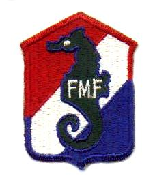 logo for the 13th Marine Defense Battalion